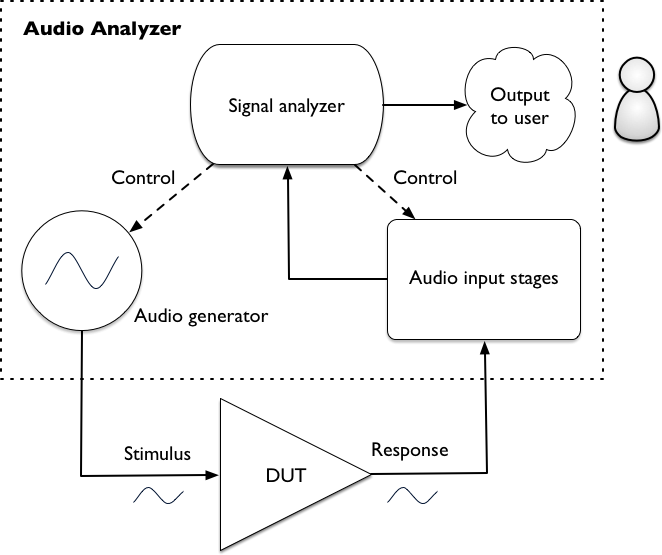 Simple diagram of audio analyzer elements connected to a device under test in closed loop configuration.